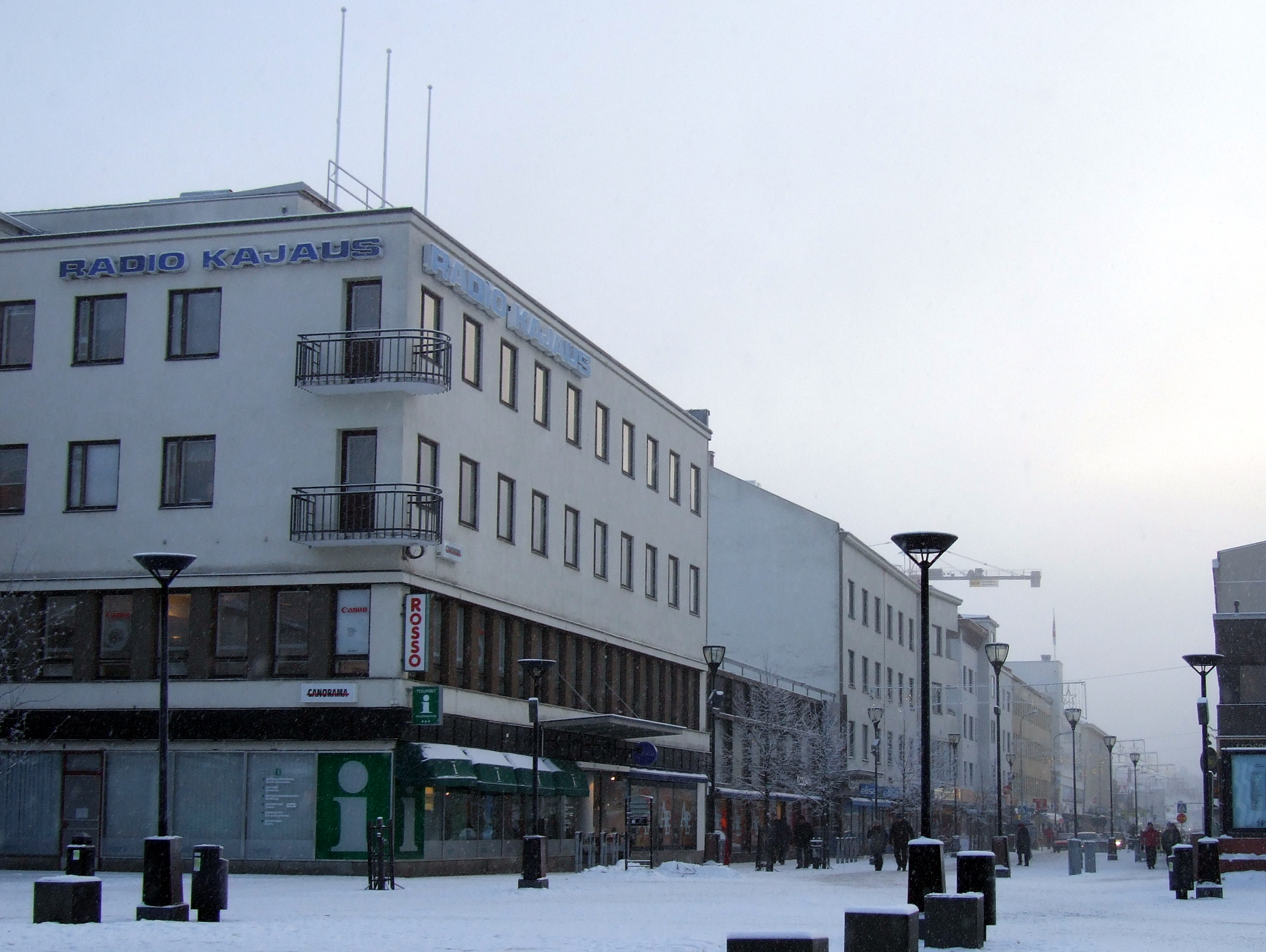 Kauppakatu street in Kajaani, Finland